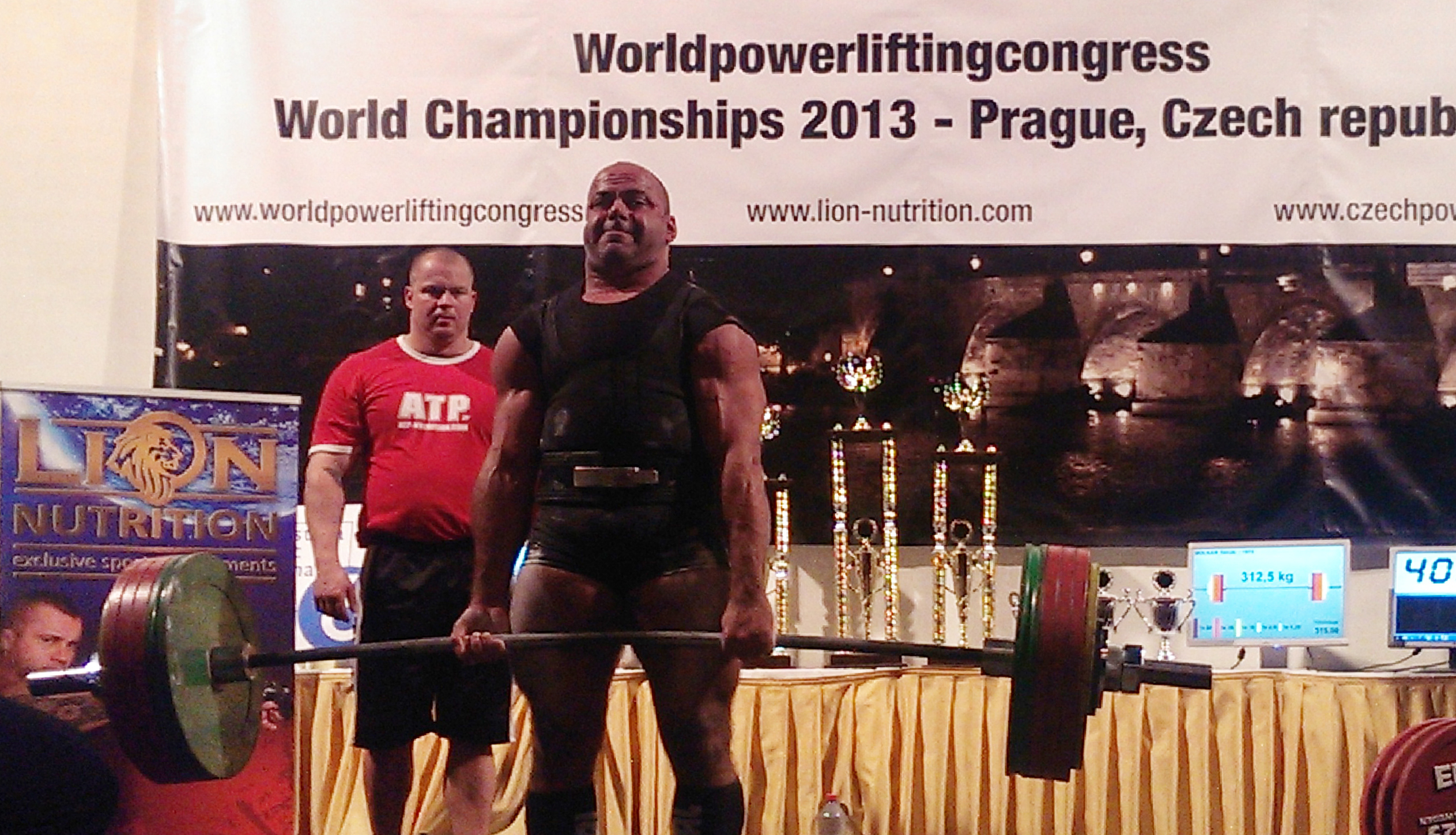 WPC World Chamionships 2013 Prague